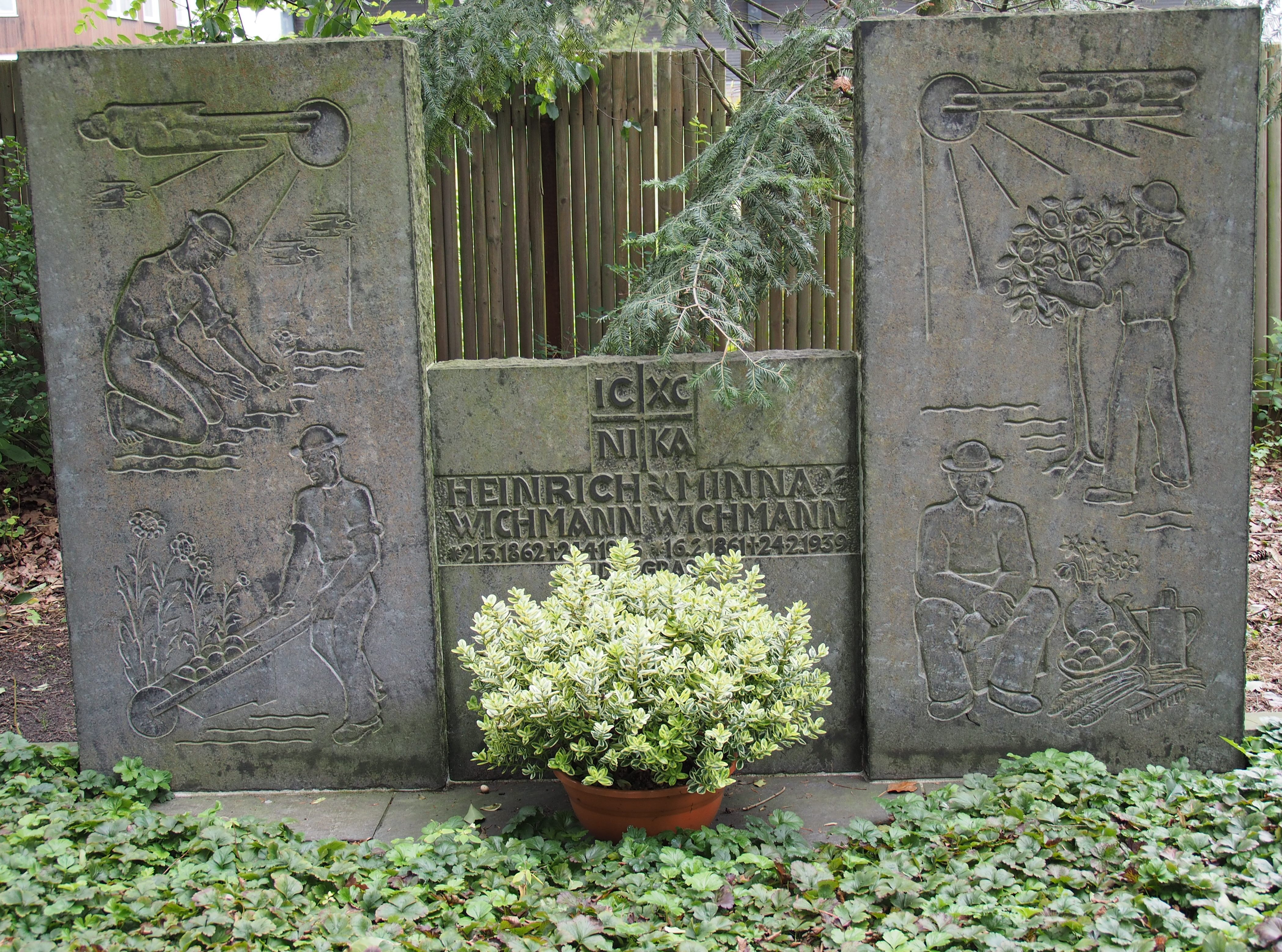 Grave of Heinrich Wichmann in Celle (Lower Saxony)